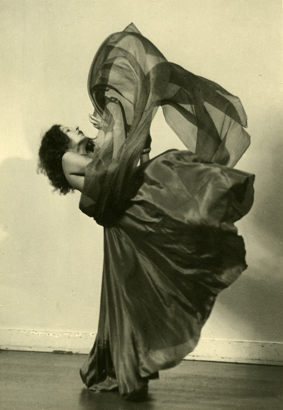 Senta Pigge performs Valse triste by Sibelius